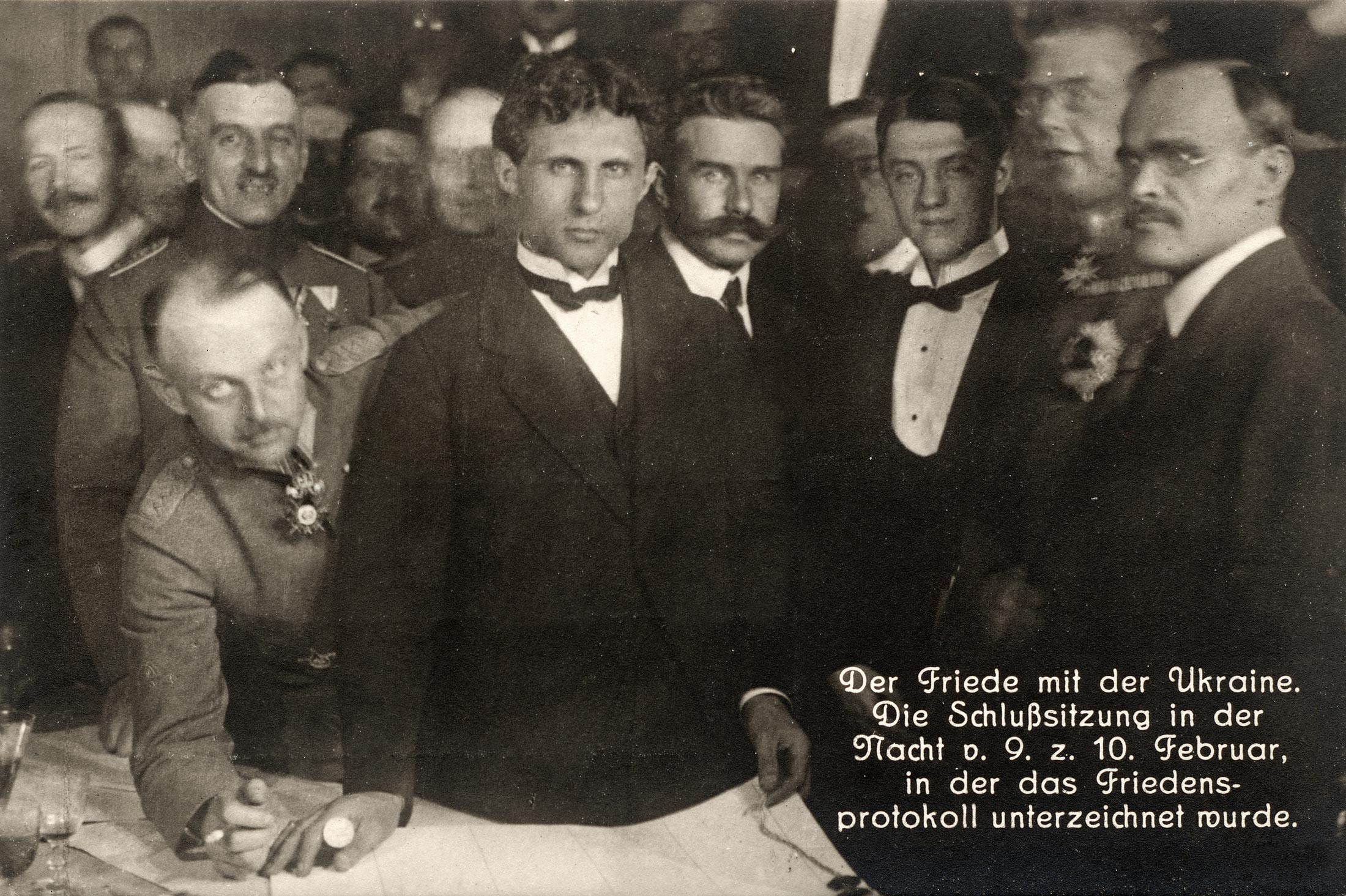 Signing of the Peace Treaty between Ukraine and the Central Powers in Brest-Litovsk February 9, 1918.The Insription reads: Der Friede mit der Ukraine. Die Schlußsitzung in der Nacht v. 9. z. 10. Februar, in der das Friedens- protokoll unterzeichnet wurde. Peace with Ukraine. The final session in the night from 9th to 10th February, in which the peace protocol was signed.